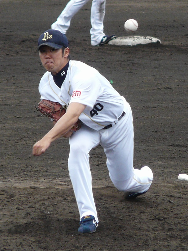 Kazuya Takamiya, pitcher of the Orix Buffaloes, at Kobe Sports Park Sub Baseball Ground.